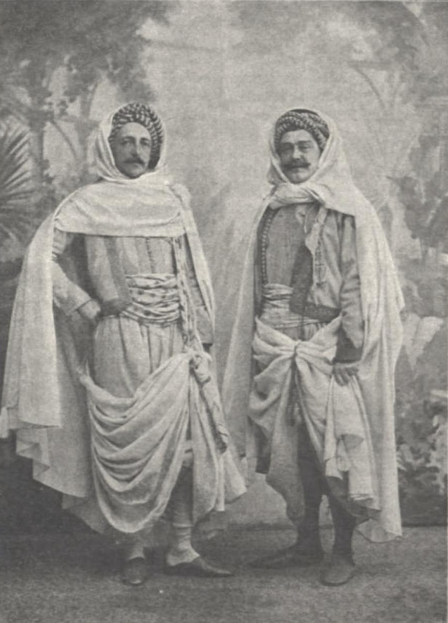 Archduke Joseph August of Austria and Adolf Libits in Tunis.